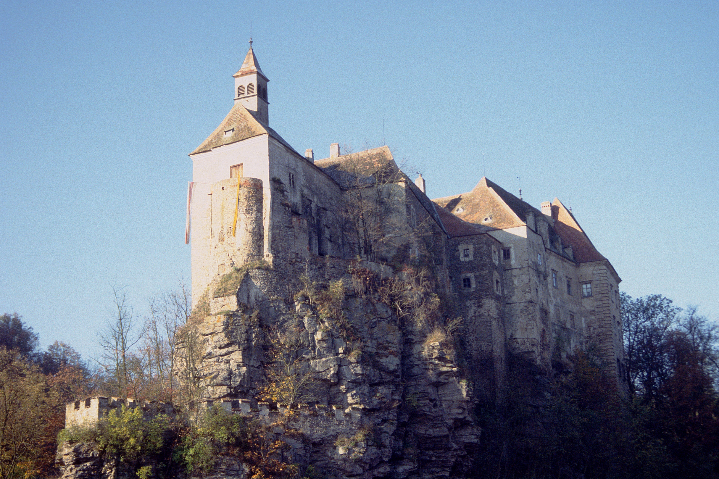 Raabs an der Thaya Castle, Lower Austria